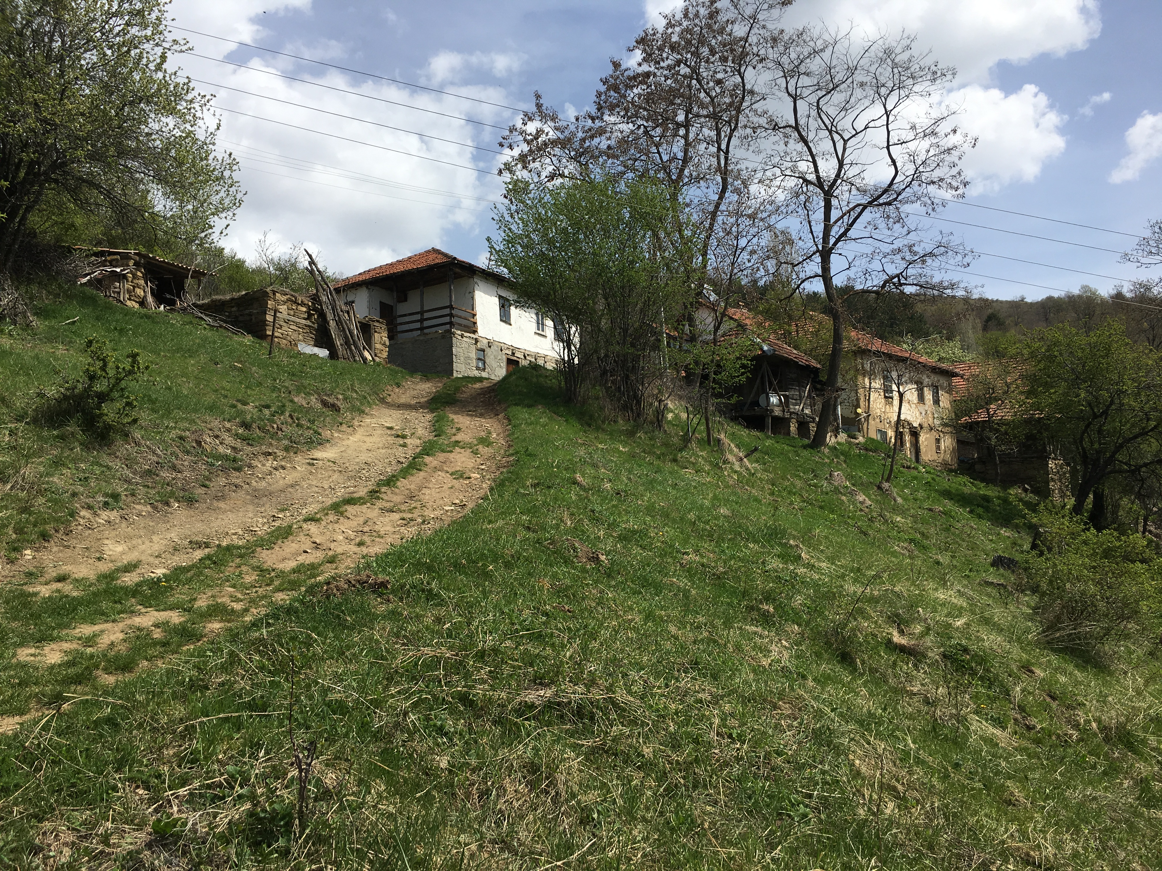 A view of the village of Trnovo